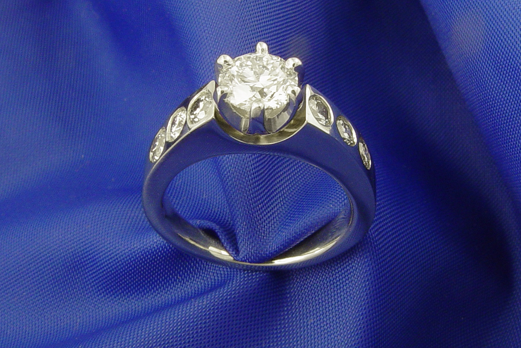 14 kt white gold ring set with one 1.05 carat diamond and 6 diamonds more.